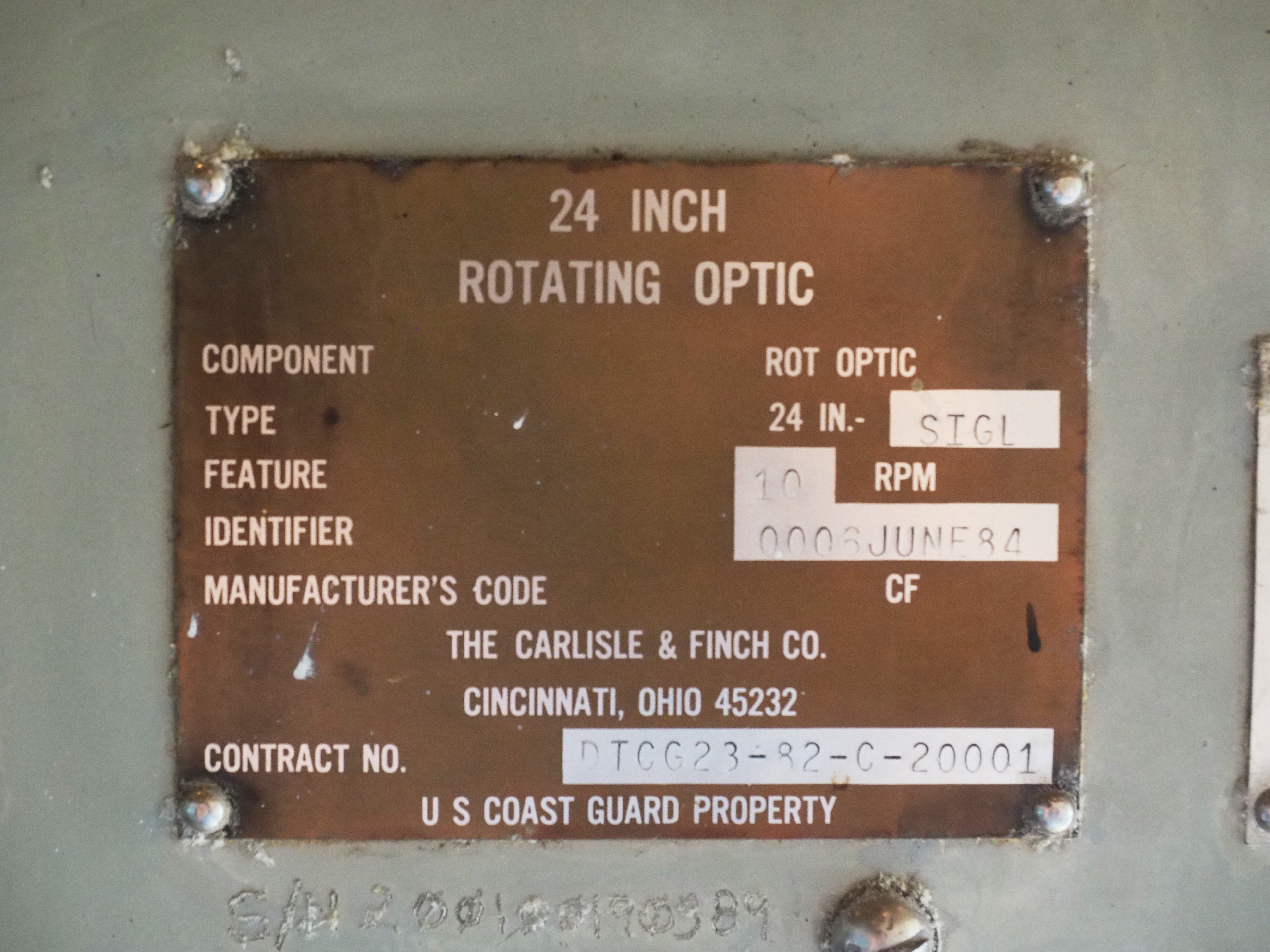 Name plate attached to marine beacon found on display at the Beavertail Light museum ( in Jamestown, Rhode Island, USA. "Carlisle & Finch marine beacon warning plate" is attached to the same light.